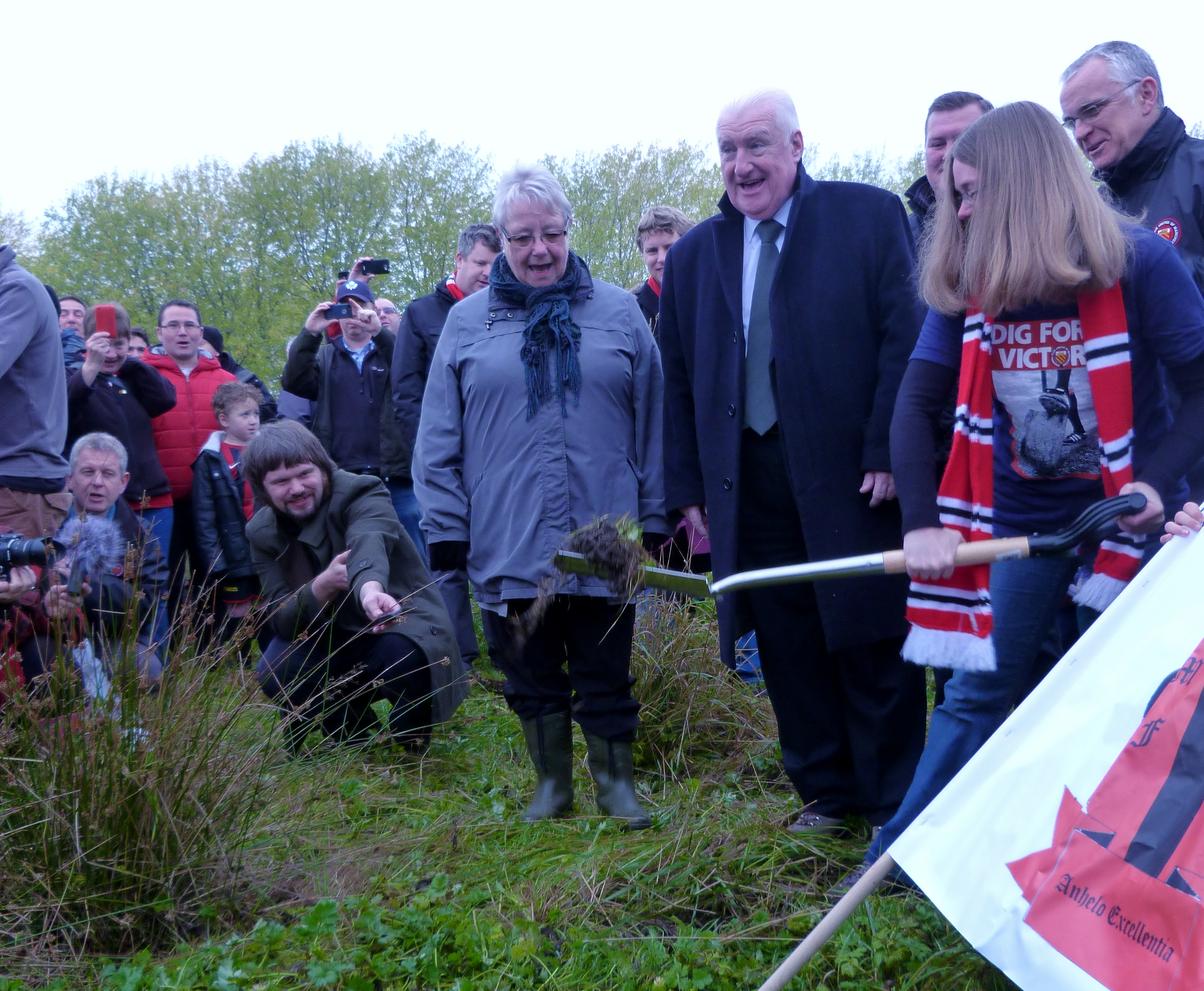 The spade-in-the-ground ceremony at Ronald Johnson Playing Fields, marking the official start of the construction of Broadhurst Park football ground.